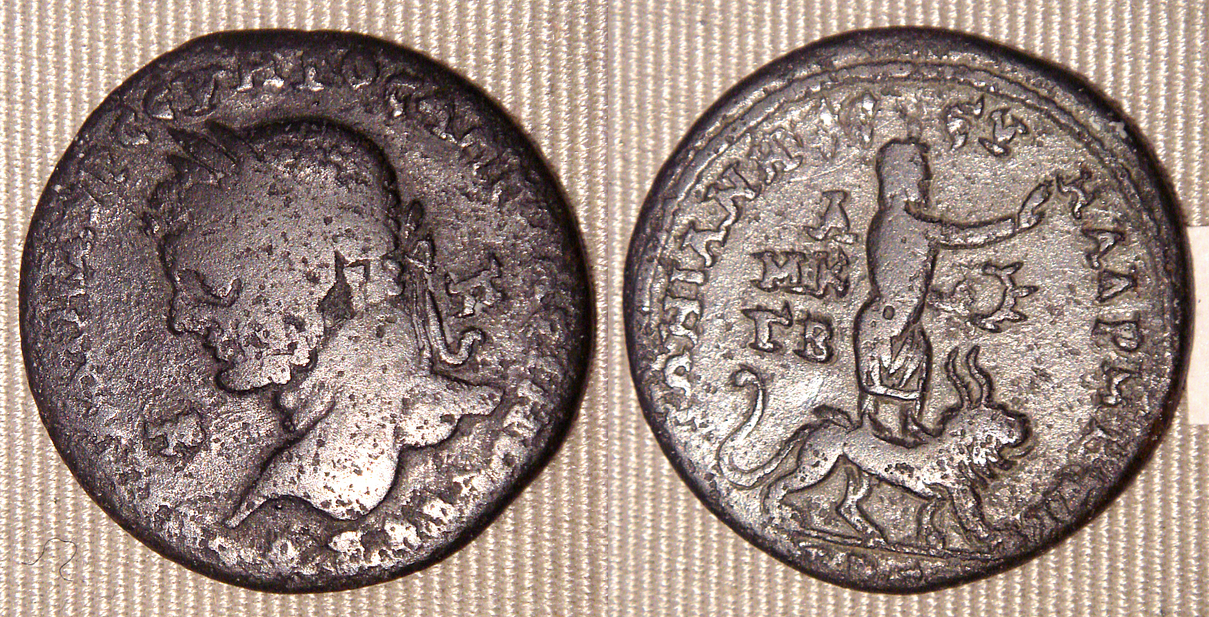 Bronze sesterce of Tarsus (Cilicia) under the reign of Caracalla (211-217); obverse: portrait of Caracalla wearing a diadem and a laurel wreath; reverse: the god Sandan and his horned lion.